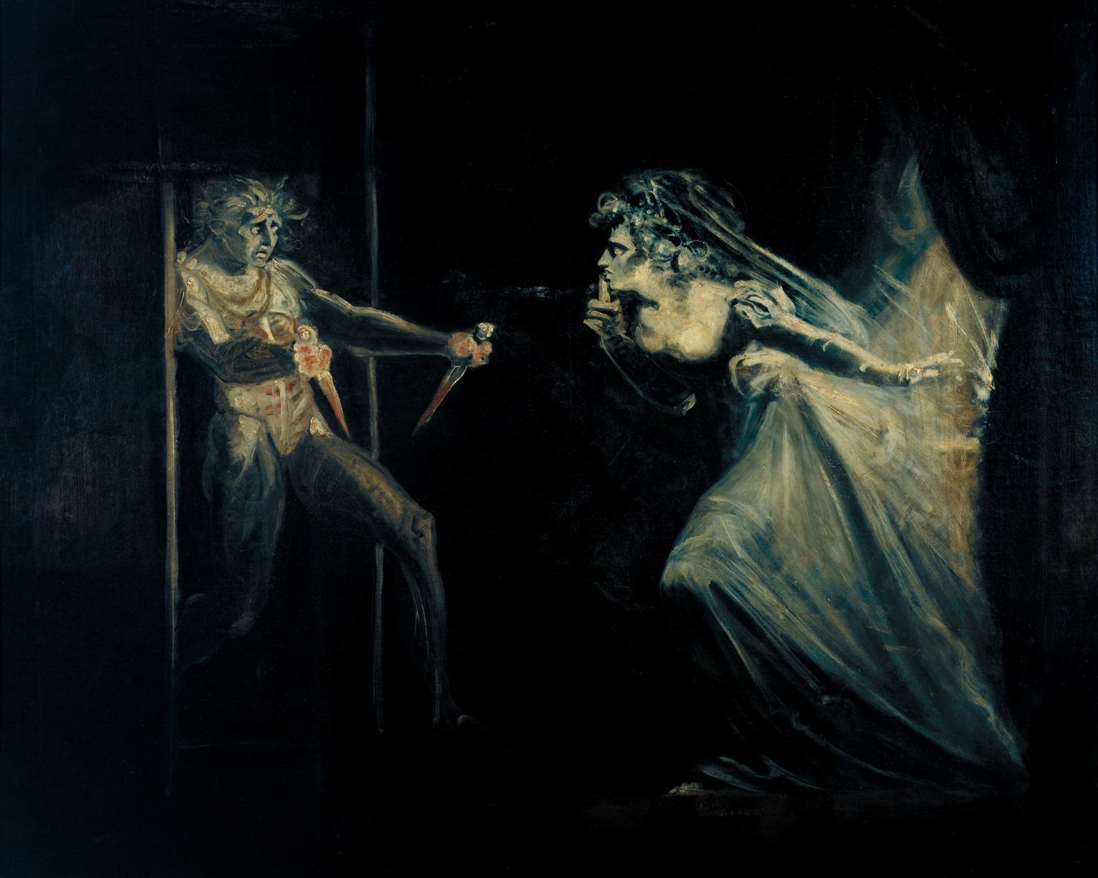 Lady Macbeth Seizing the Daggers, Tate Gallery, London